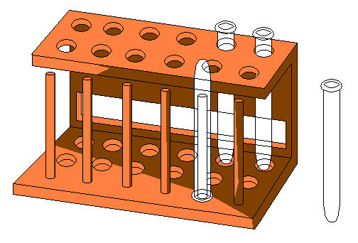 The illustration of wooden test tube rack which drawn using Microsoft Paint.